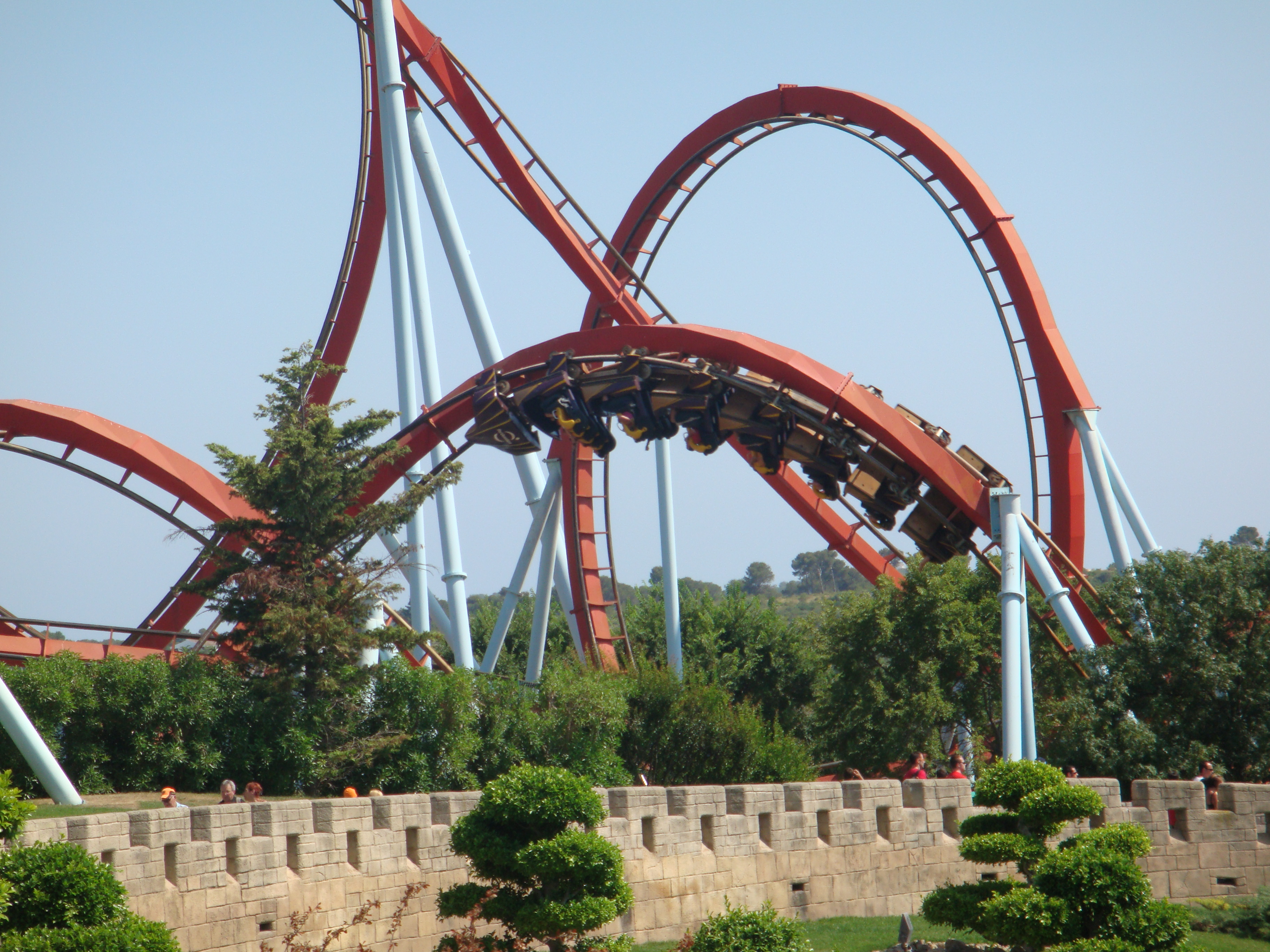 Interlocked Corkscrew element.